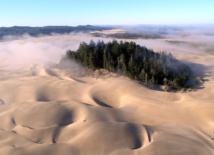 Tree island in the Oregon Dunes National Recreation Area.